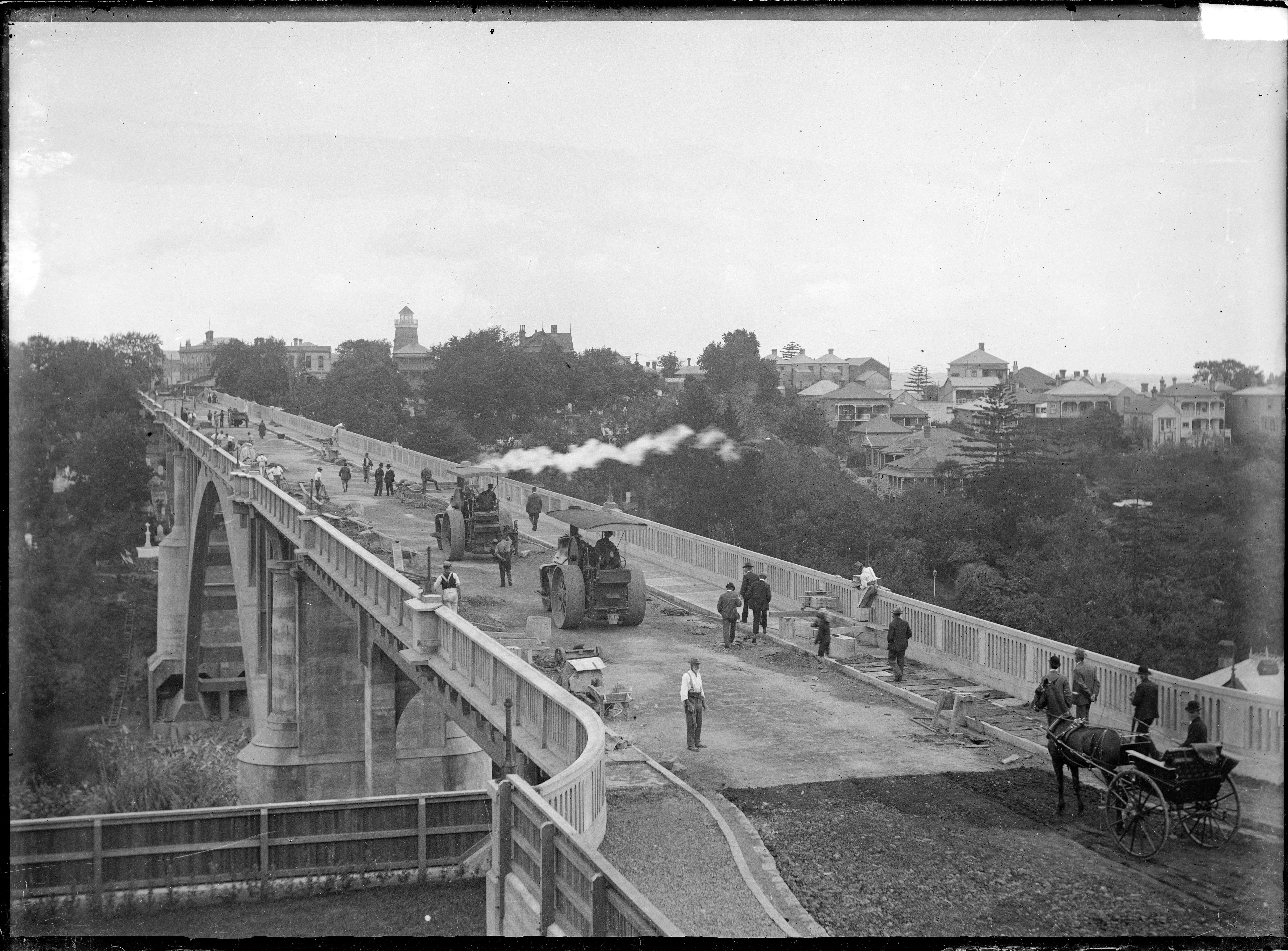 View of Grafton Bridge, Auckland, under construction, circa 1910 taken from the Park Road end. Graves can be seen in Symonds Street Cemetery on the lefthand side in the gully below the bridge. Houses can be seen on the righthand side (St Martin's Street and Symonds Street). Men are working on the roadway, some on steam rollers, and pedestrians are walking across the bridge while it is still under construction. A horse and carriage is in the immediate foreground. Photograph taken by William Price. Quantity: 1 b&w original negative(s). Physical Description: Dry plate glass negative 4.5 x 6.5 inches Grafton Bridge, Auckland, under construction. Price, William Archer, 1866-1948 :Collection of post card negatives. Ref: 1/2-000889-G. Alexander Turnbull Library, Wellington, New Zealand.